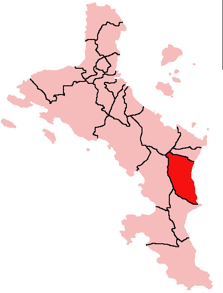 Map of Mahe Island, Seychelles showing Au Cap District; created with the GIMP. Made by User:Acntx.